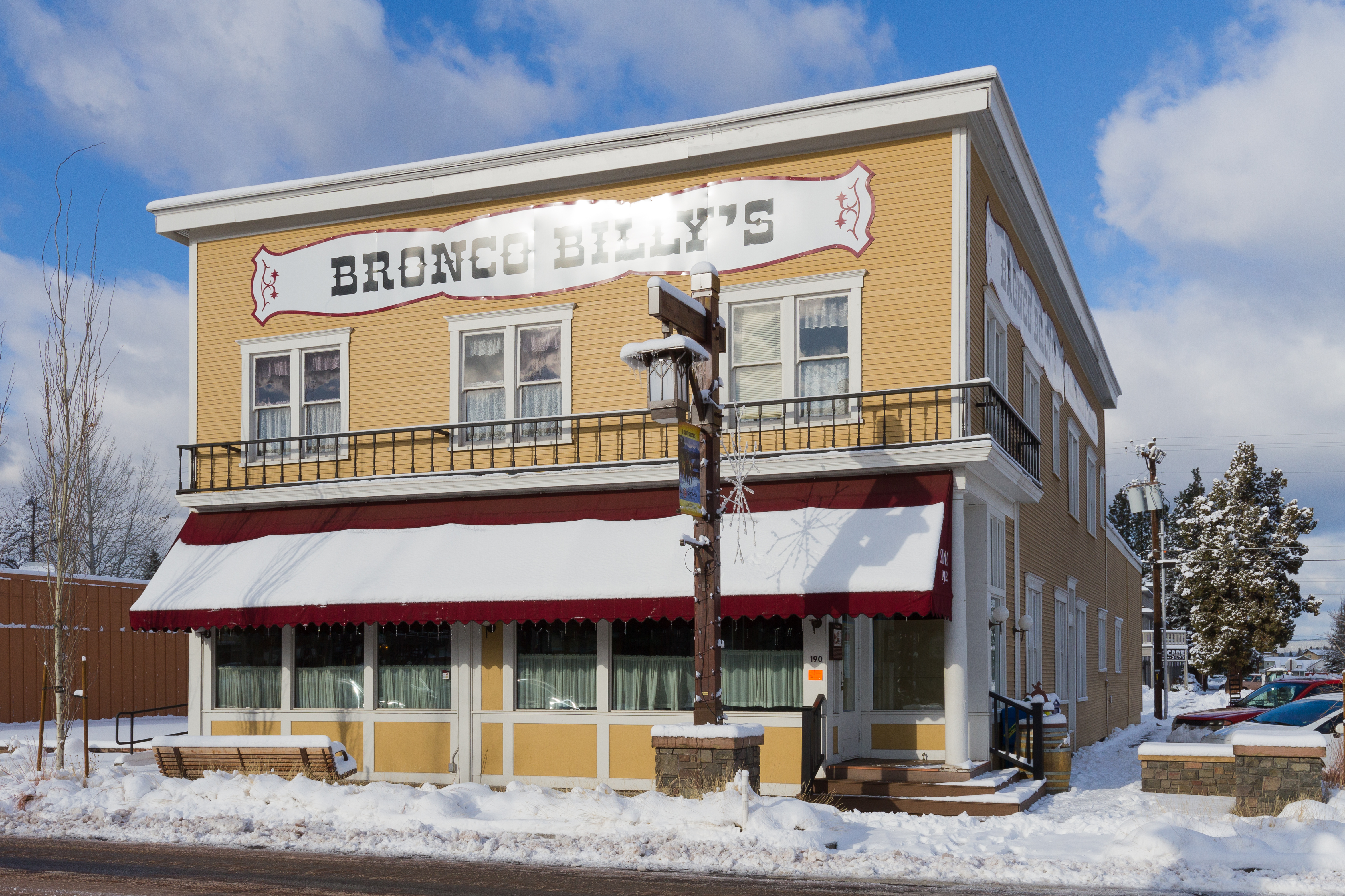 Former Hotel Sisters in Sisters, Oregon. The hotel was built in 1912 by local businessman John Dennis and continues to be among the most photographed buildings in Central Oregon.